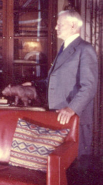 Close-up of Fred Burnham at home in Hollywoodland